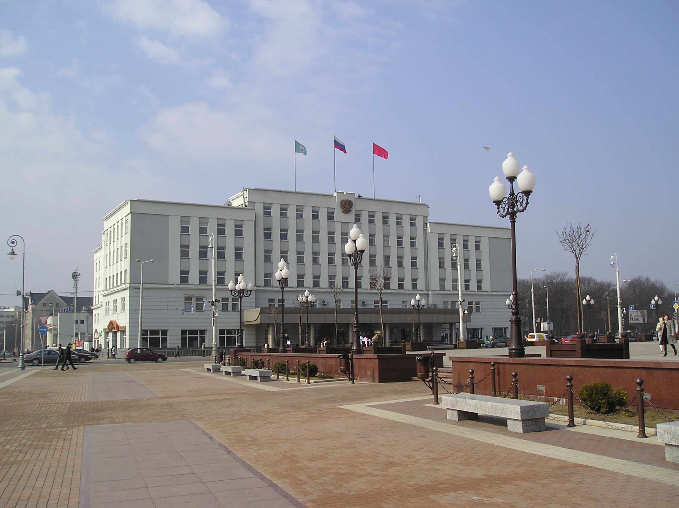 Kaliningrad City Hall, situated in Victory Square in the city of Kaliningrad.